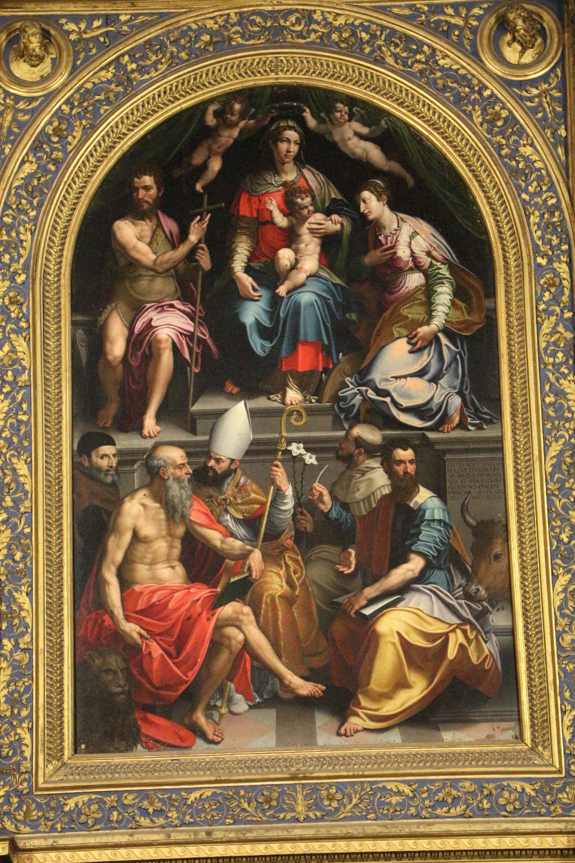 San Martino (Bologna) - Interior